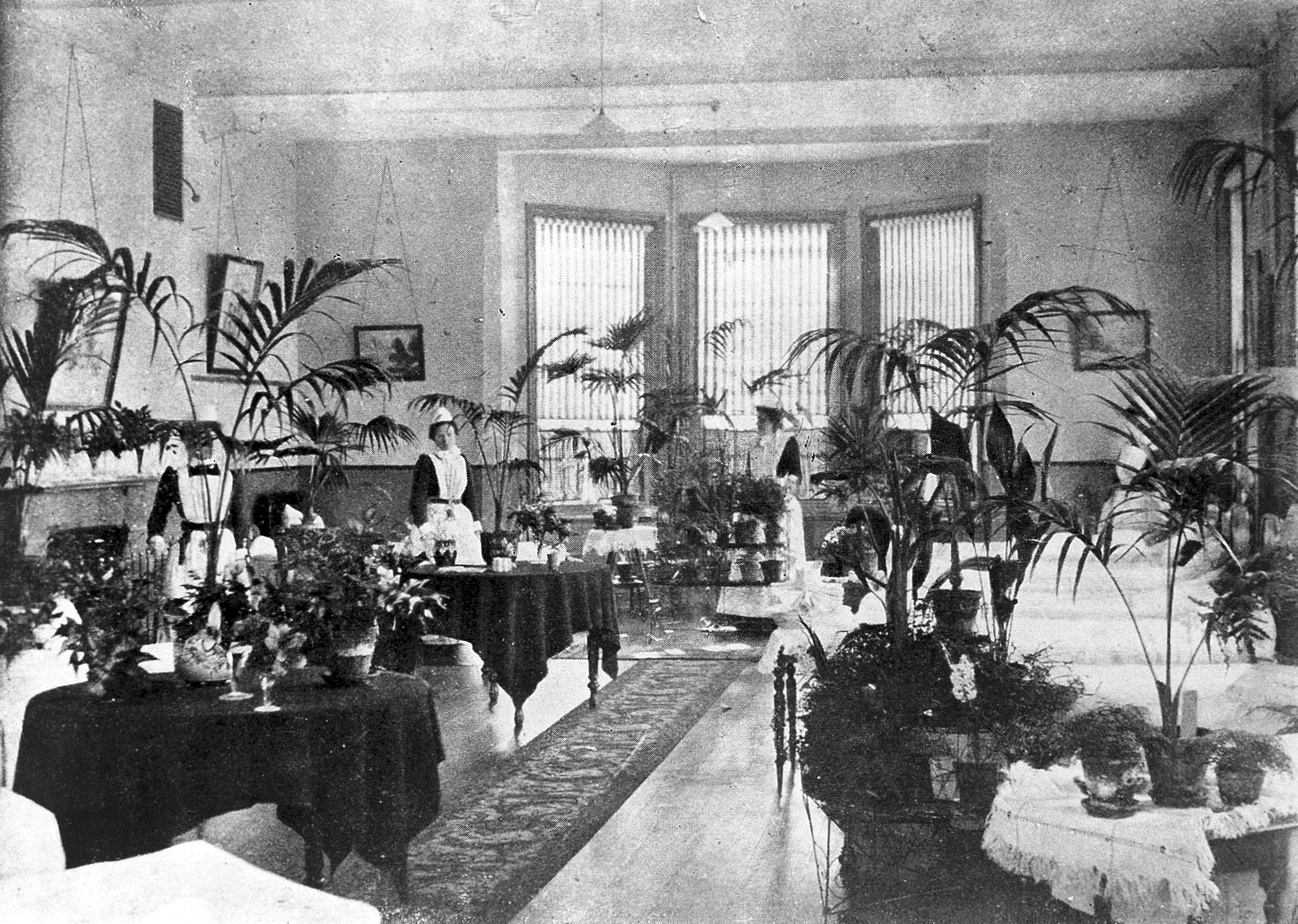 "Ward in Hospital villa, Heath Asylum, Bexley". In the Royal College of Psyciatrists. Wellcome Images Keywords: mental hospitals: bexley